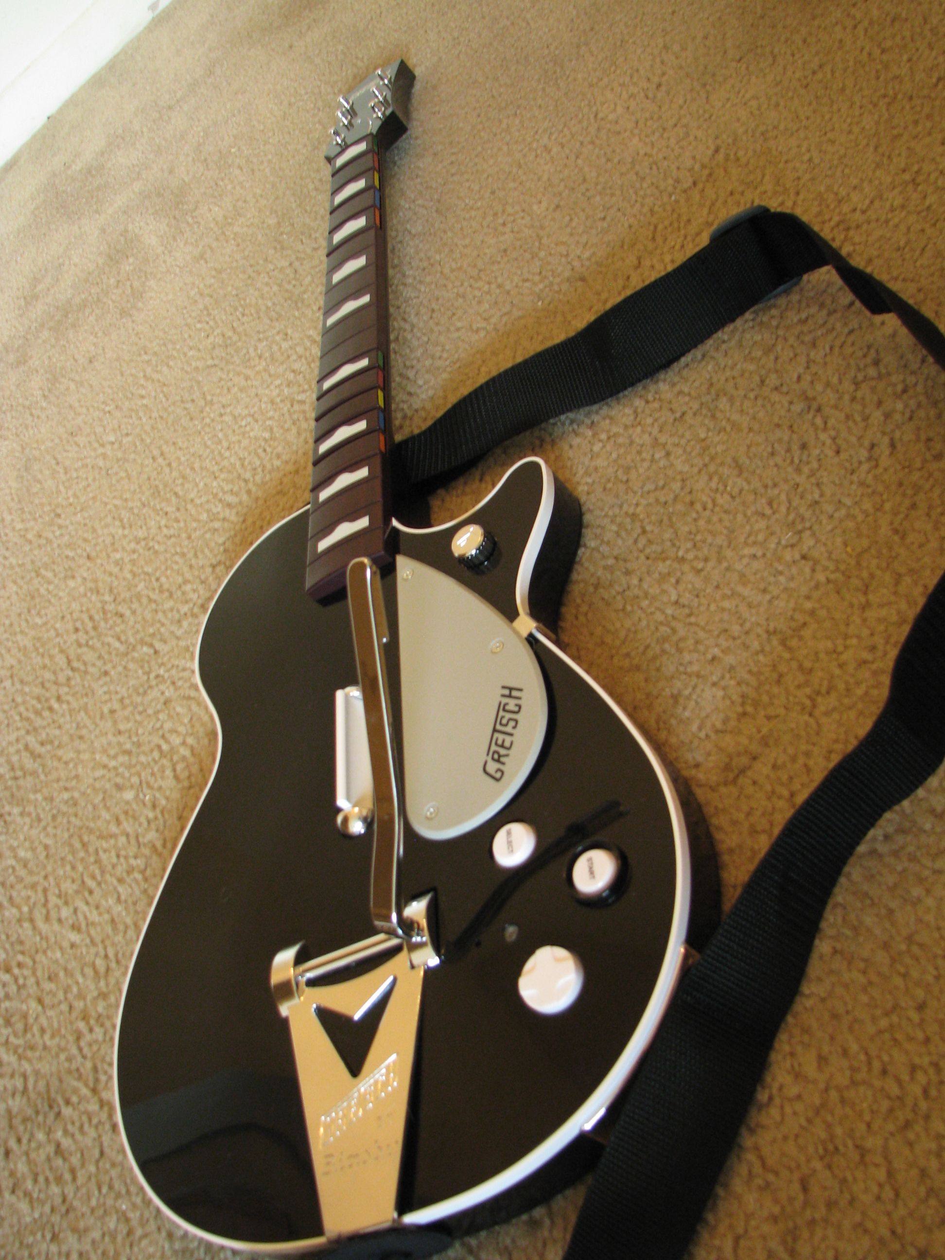 One of the instruments-shaped controllers for the video game The Beatles: Rock Band : a Gretsch Duo Jet guitar.